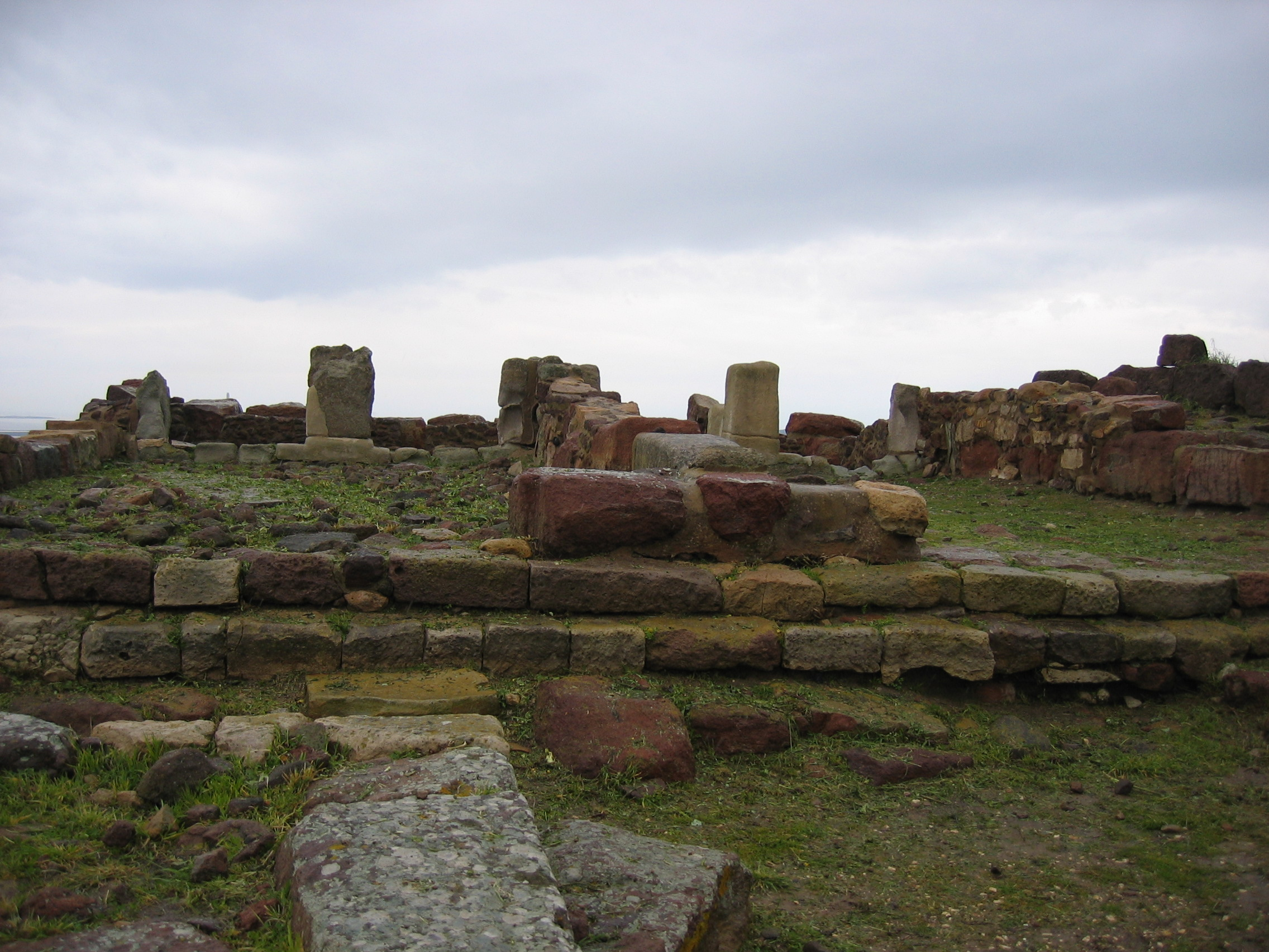 Monte Sirai, Sardinia (Italy)